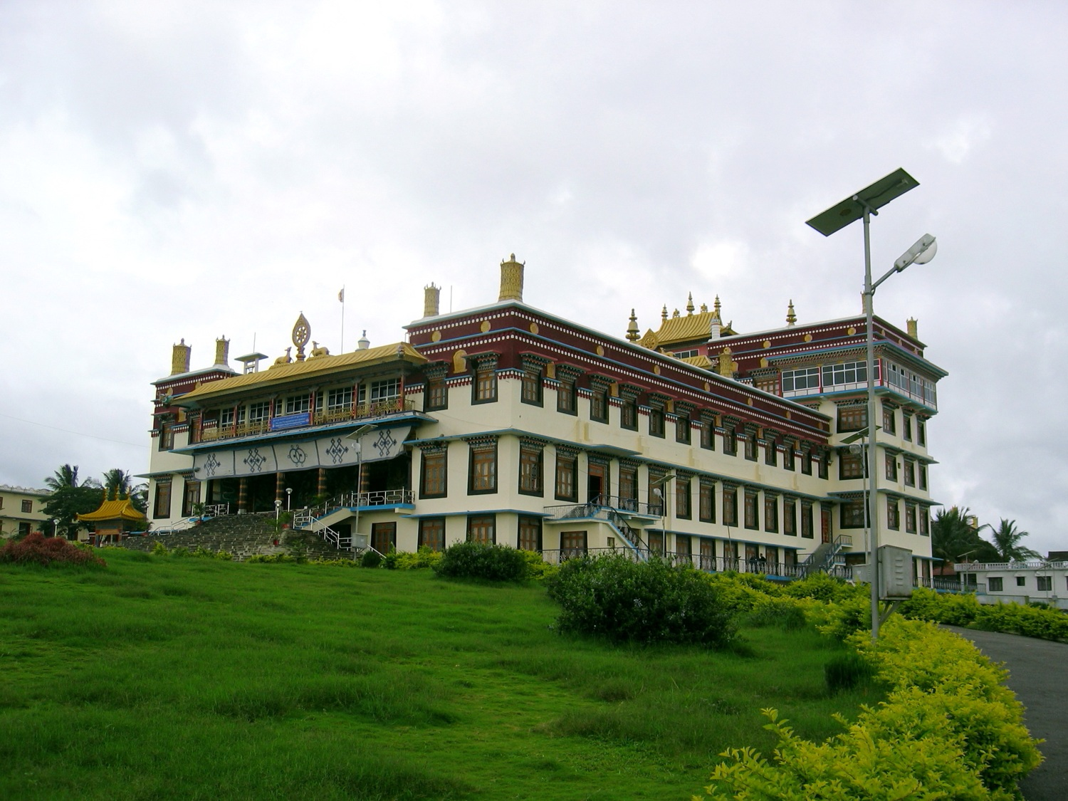 The new main temple of Sera Mey Monastic University.